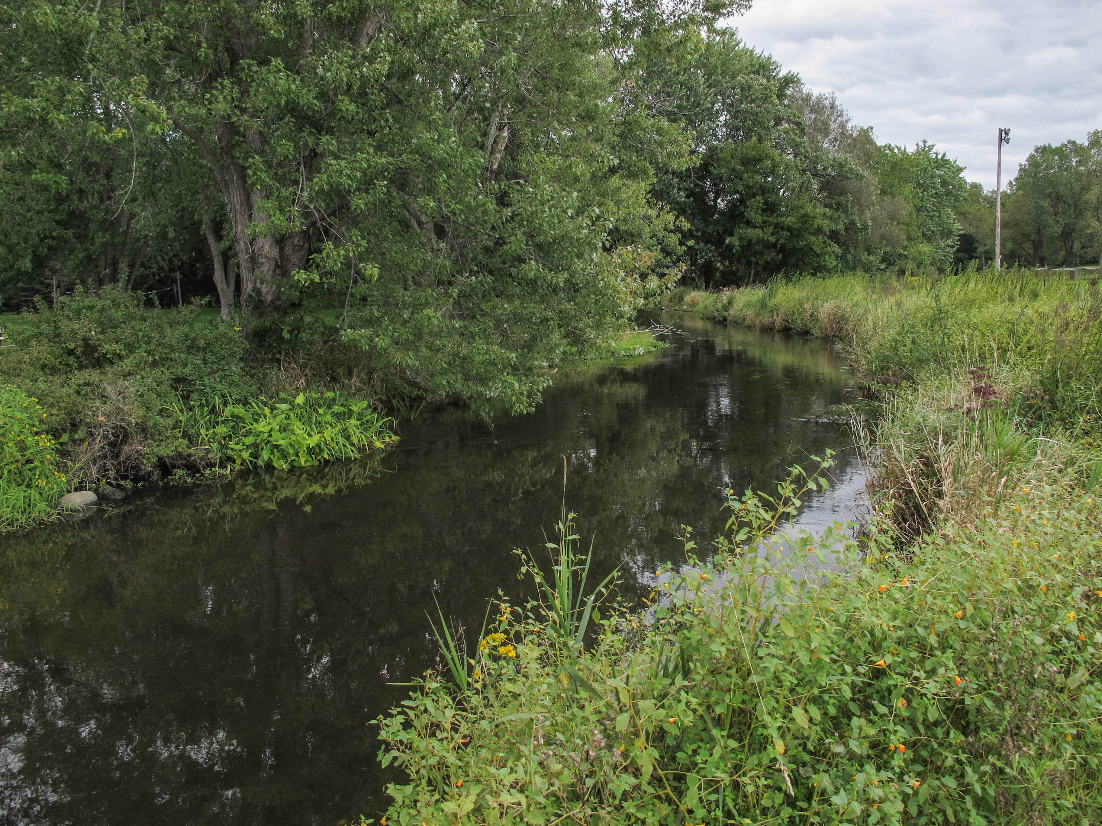 McCoy Creek in the McCoy Creek Recreation Area in Buchanan, Michigan.